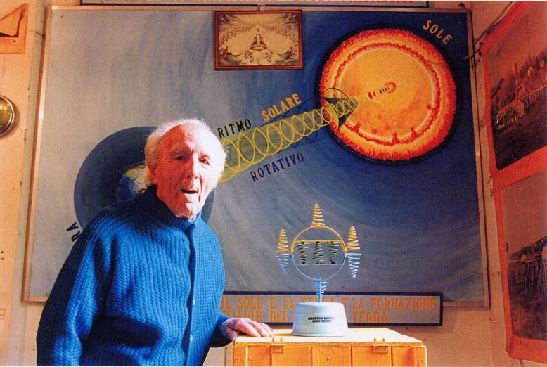 Pierluigi Ighina